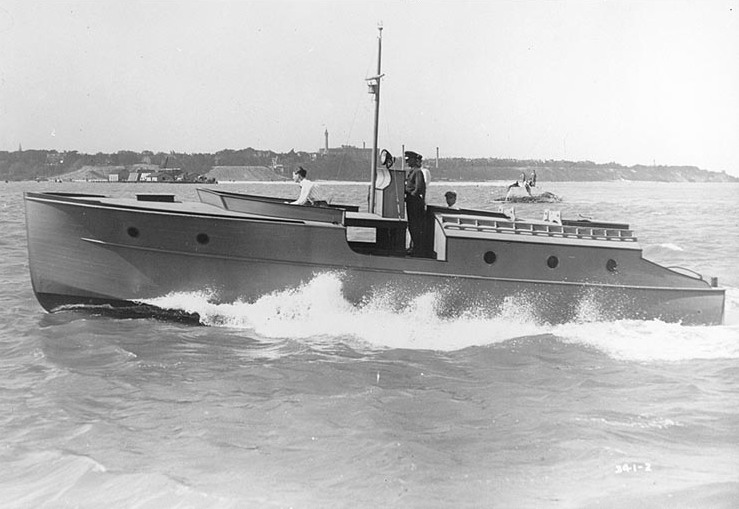 The private motorboat Terrier shortly after completion, probably in the vicinity of Milwaukee, Wisconsin, and just prior to her United States Navy service as the patrol vessel USS Terrier (SP-960).